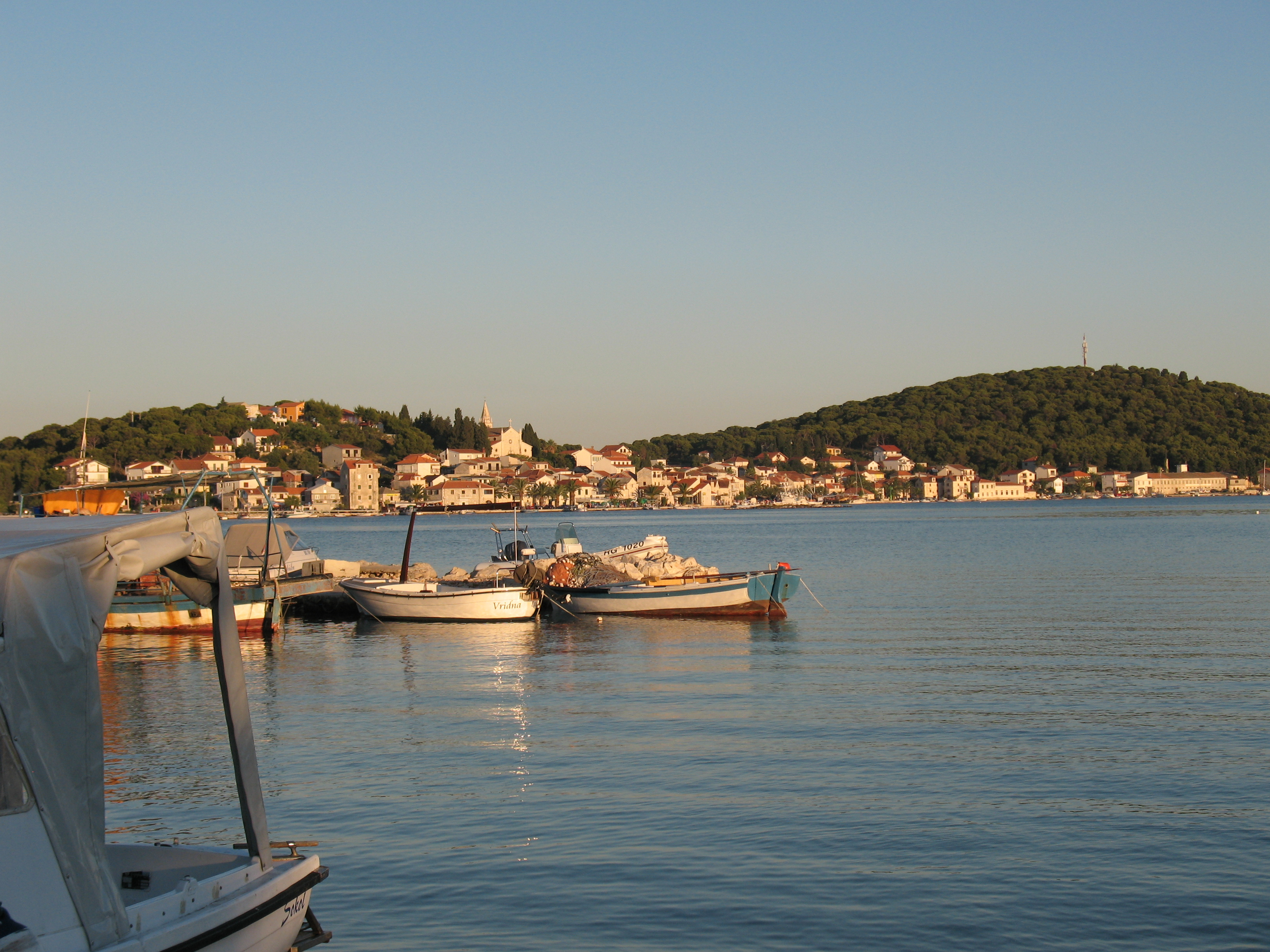 view on the old part of Rogoznica from the marina